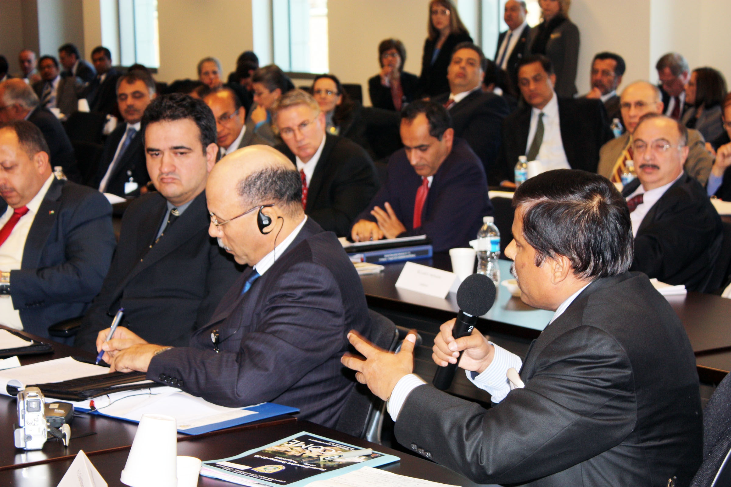 Seminar photo